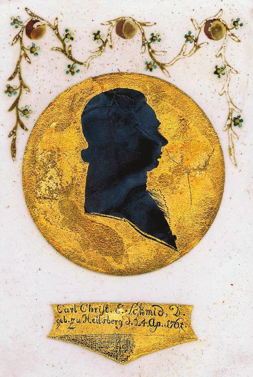 Carl Christian Erhard Schmid (1761-1812) german Philosopher an protestant Theologian